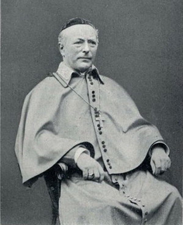 Bishop Gul